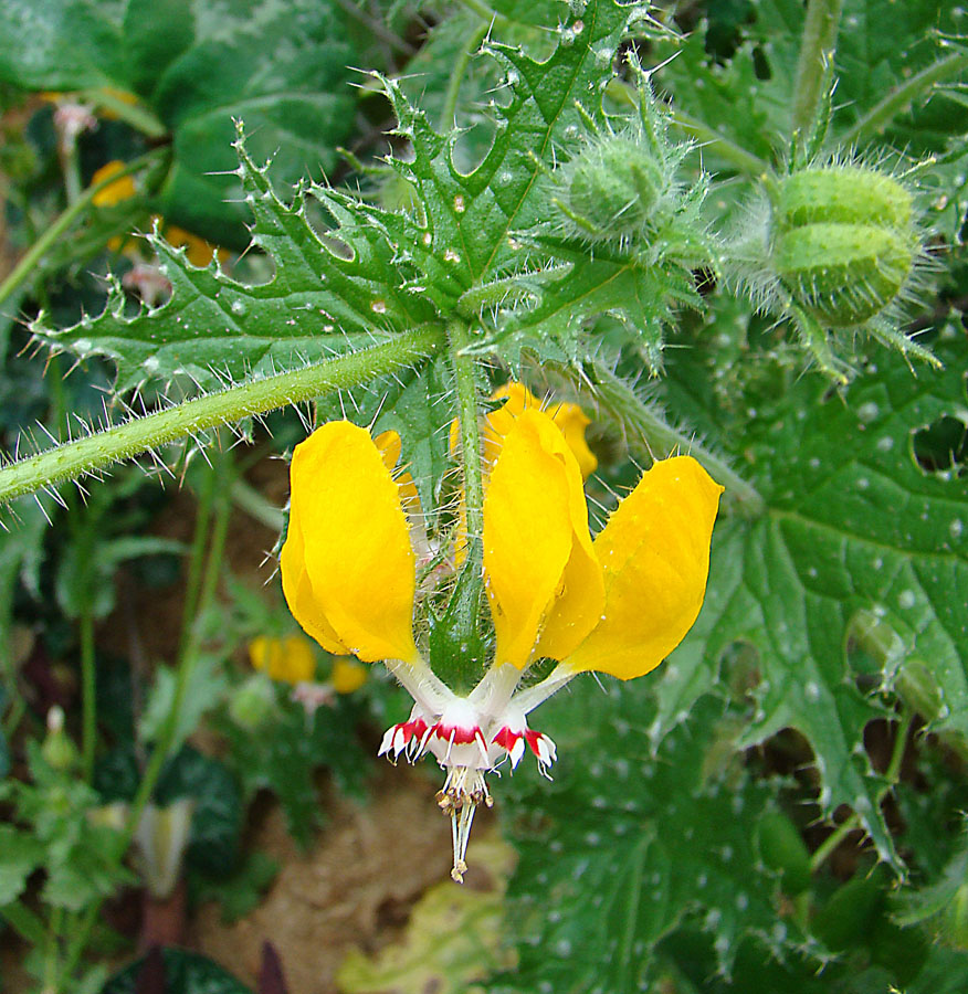 Endemic to central Chile, one of the species known as Ortiga Caballuna. In context at